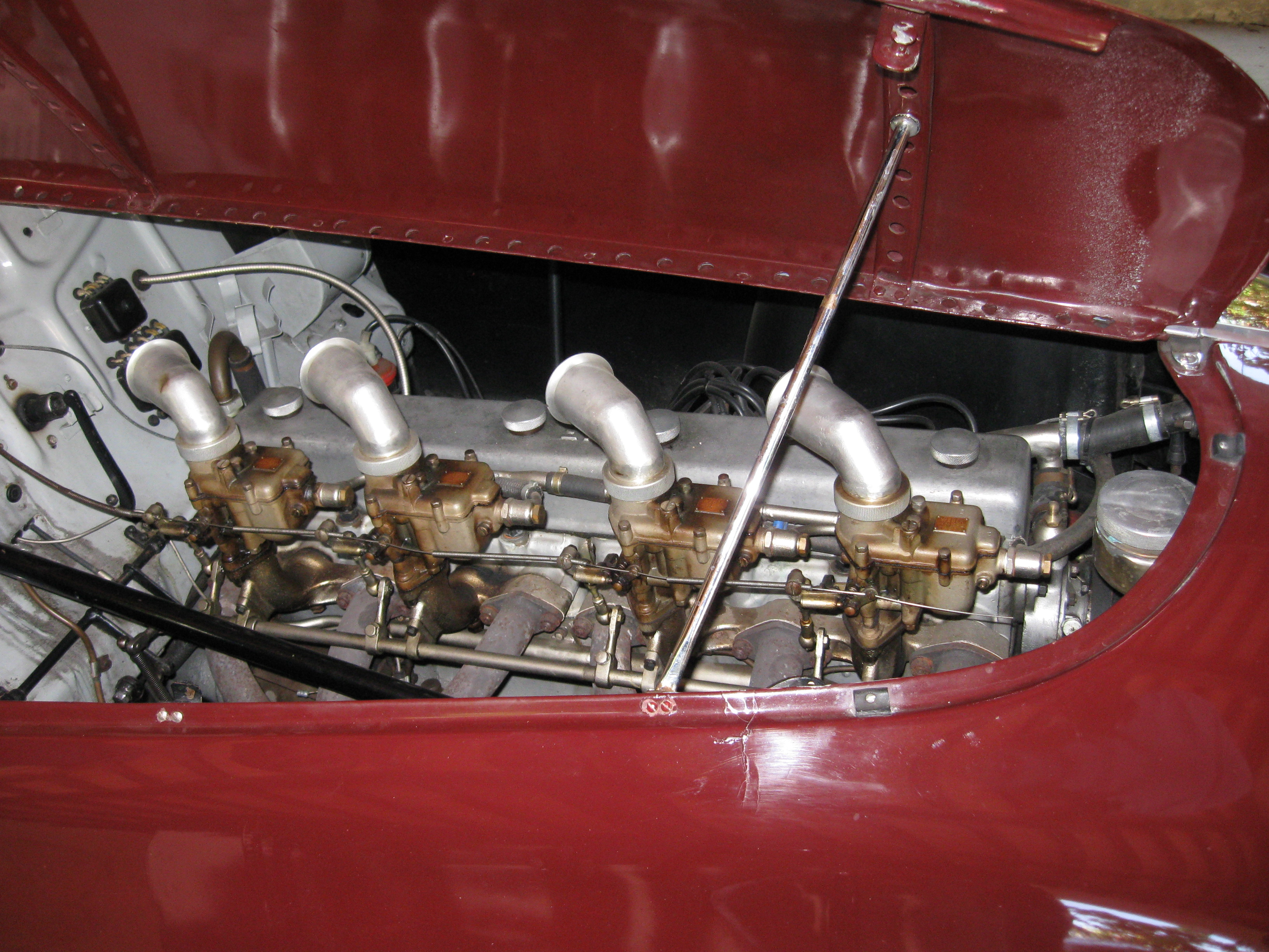 Fiat 1.5-liter inline 8 cylinder engine installed in the 1940 Auto-Avio Costruzioni model 815 built by Enzo Ferrari